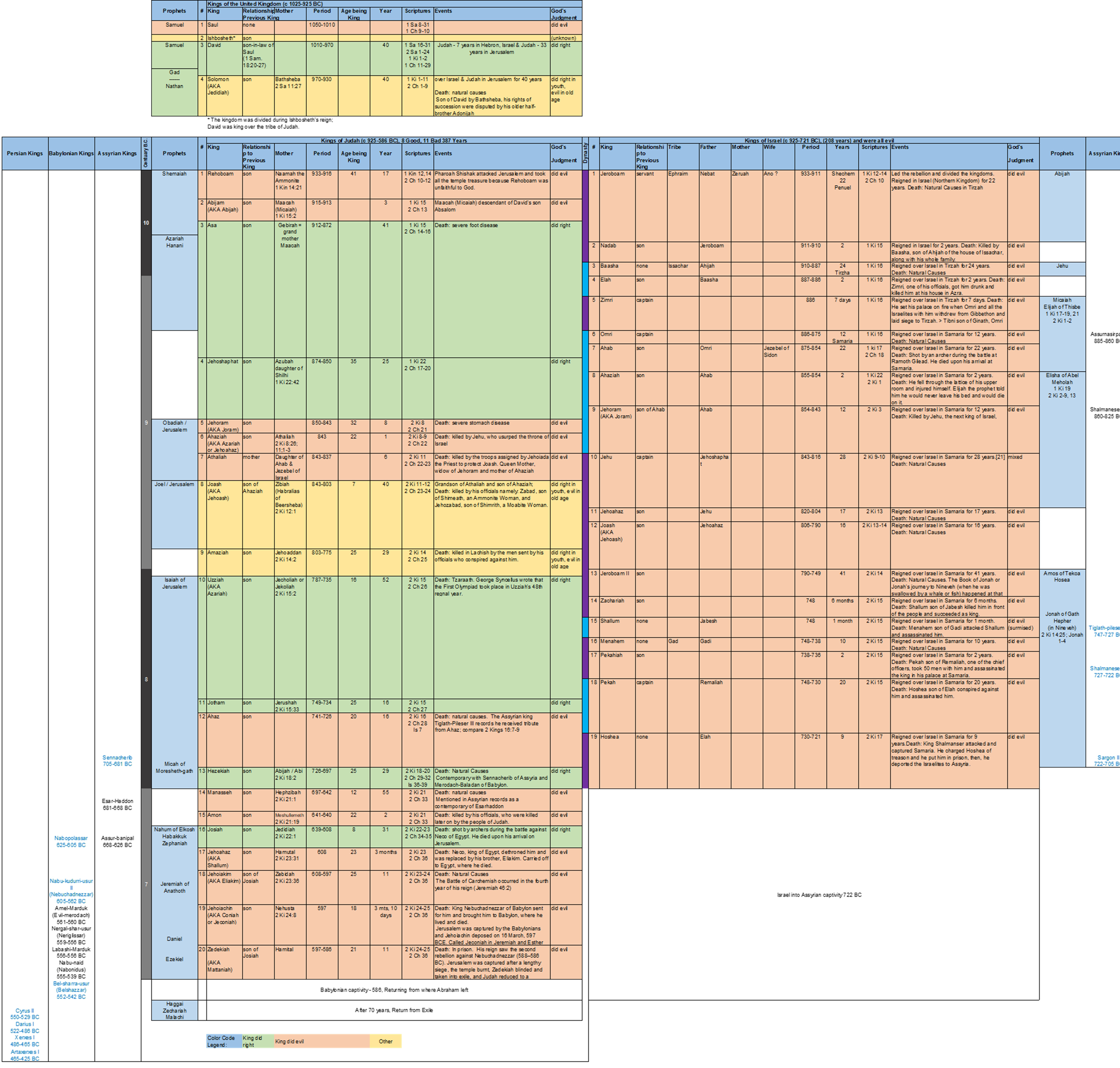 This table describes the Kings, their parents, age they lived, the prophets who influenced them, and the emperors they encountered in battle.